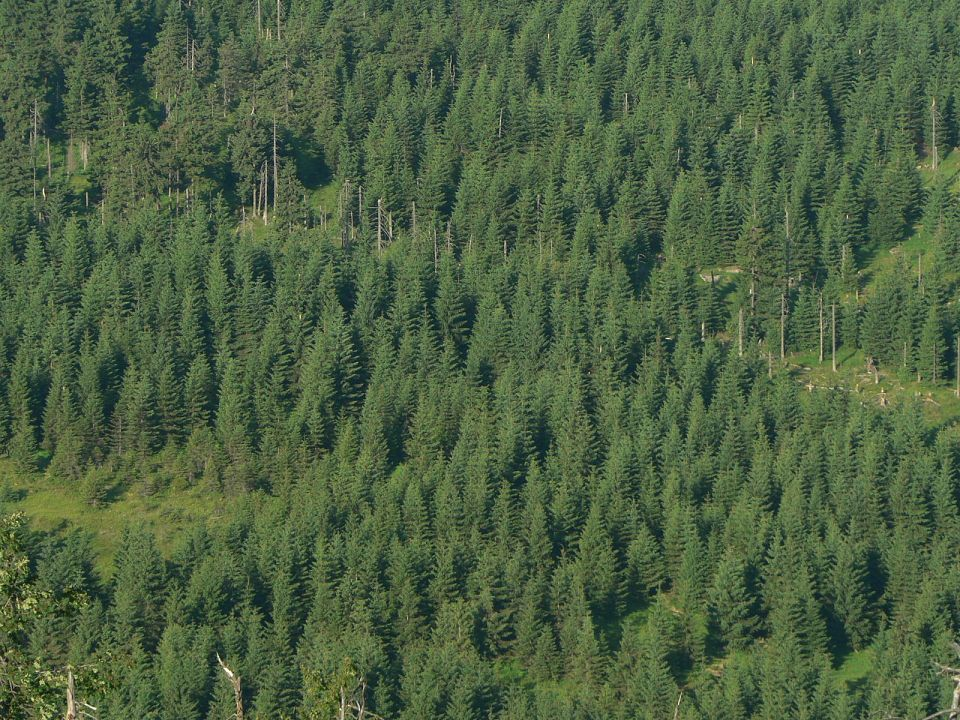 Jizera Mountains Wood